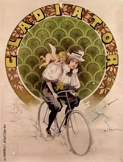 Poster for "Gladiator" cycles. Started in Paris in 1891 by Alexandre Darracq (an eccentric, who would later become famous for manufacturing automobiles), Gladiator was one of the dozens of bicycle companies that saturated the market when the cycling craze boomed.